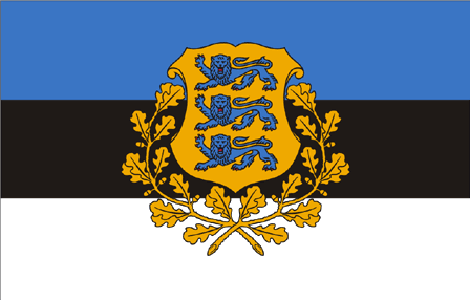 Estonian presidential flag, 7:11